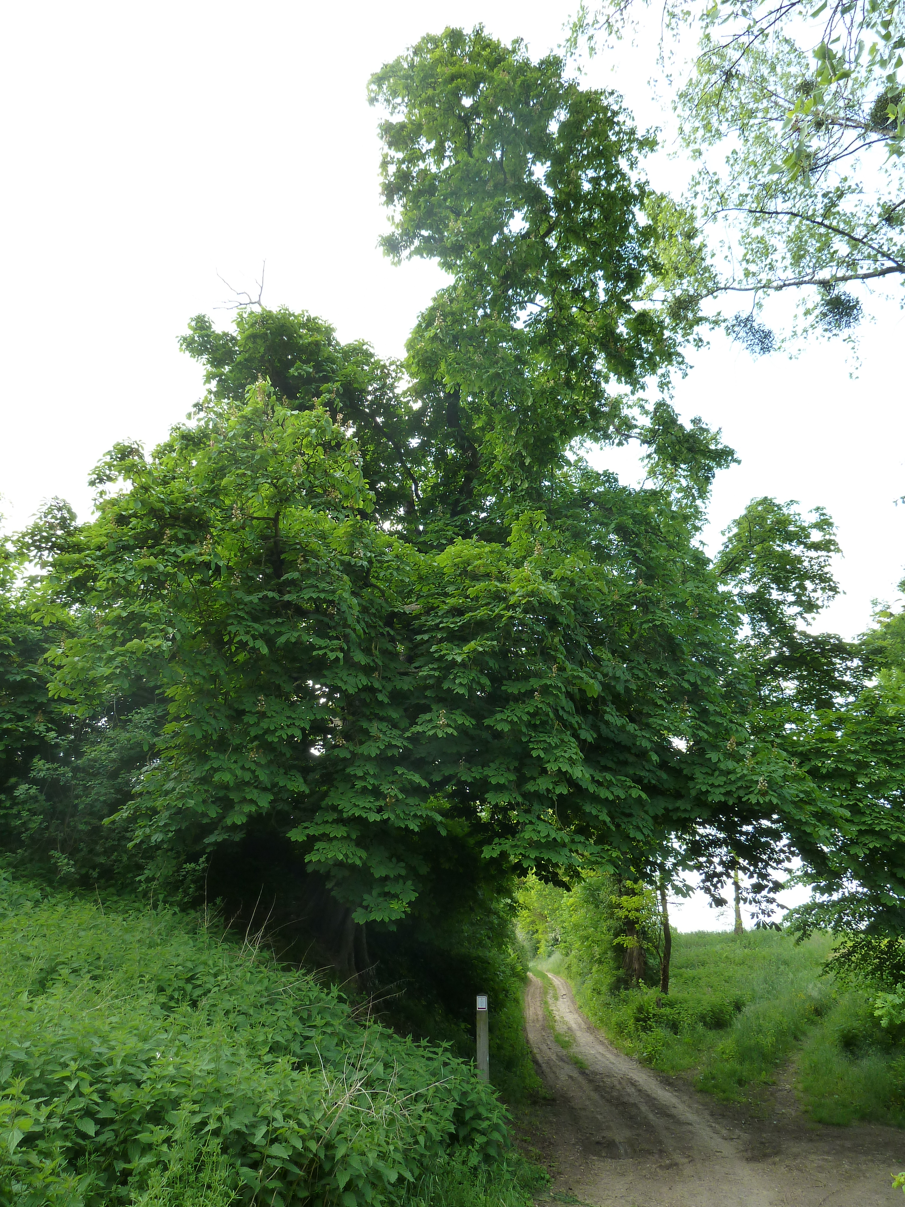 Nail tree of 's-Gravenvoeren, Voeren, Limburg, Belgium